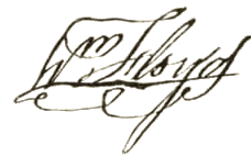 William Floyd's signature